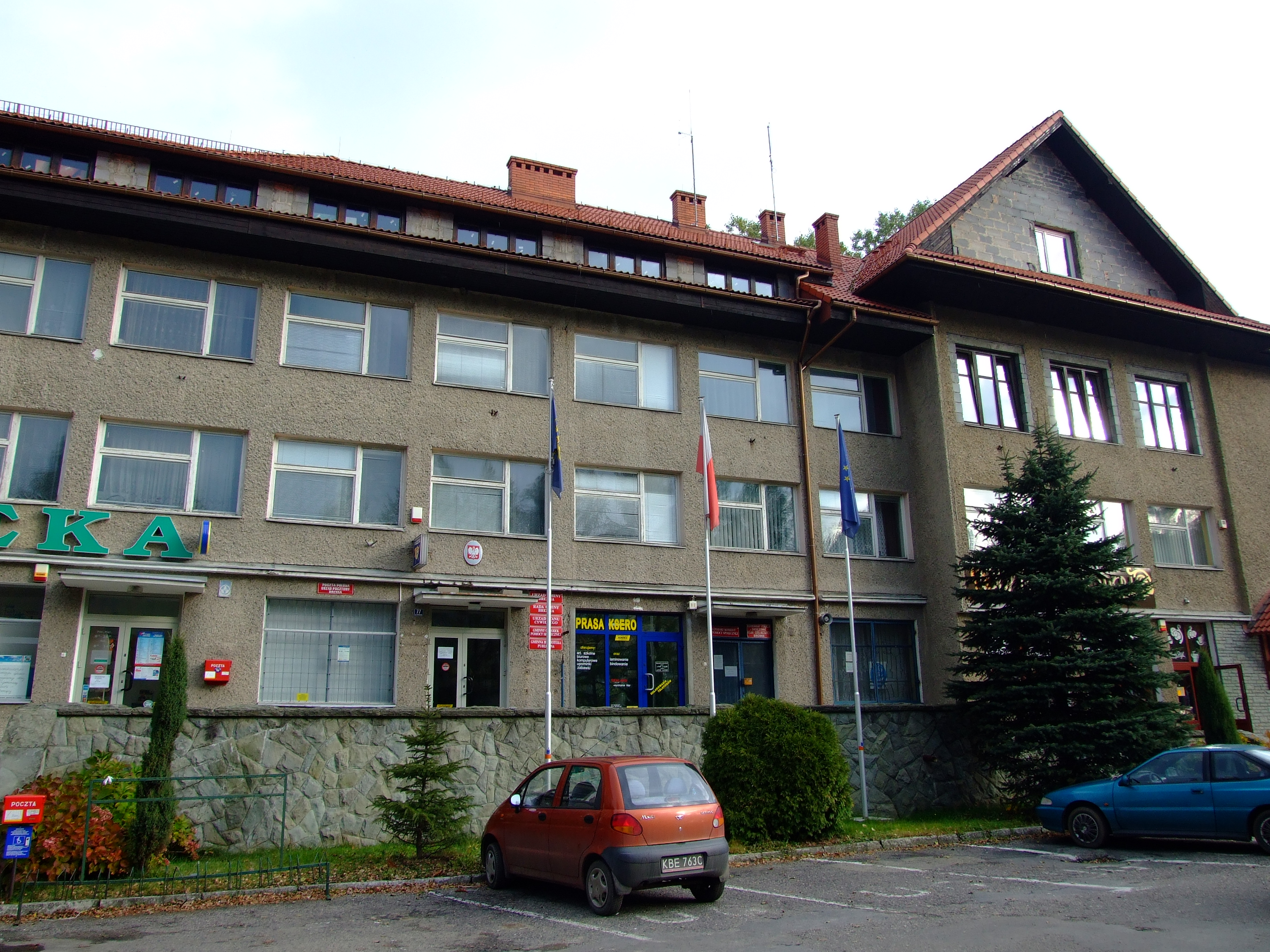 Municipal office in Brenna